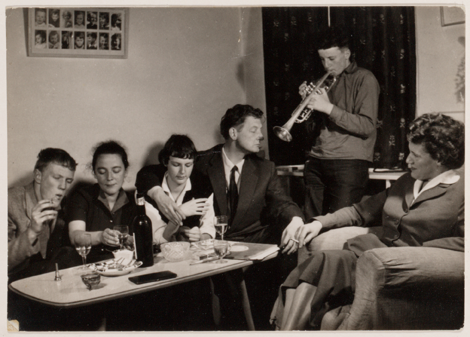 NLMD02_P-07491-lll-003, 11-05-2007, 14:11, 8C, 3904x3912 (1662+3767), 100%, LMzw, 1/50 s, R88.4, G42.8, B40.7